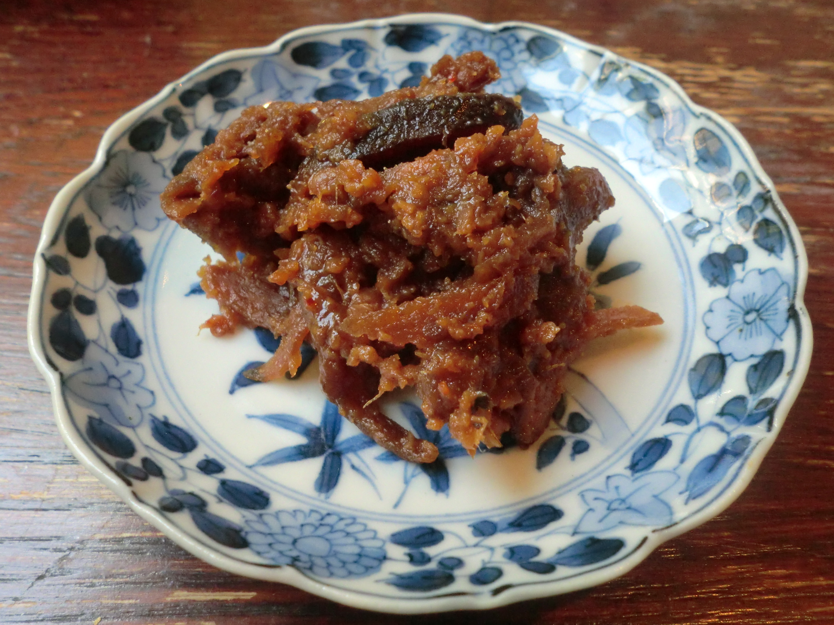 Tekka-miso, Japanese condiment which used miso.